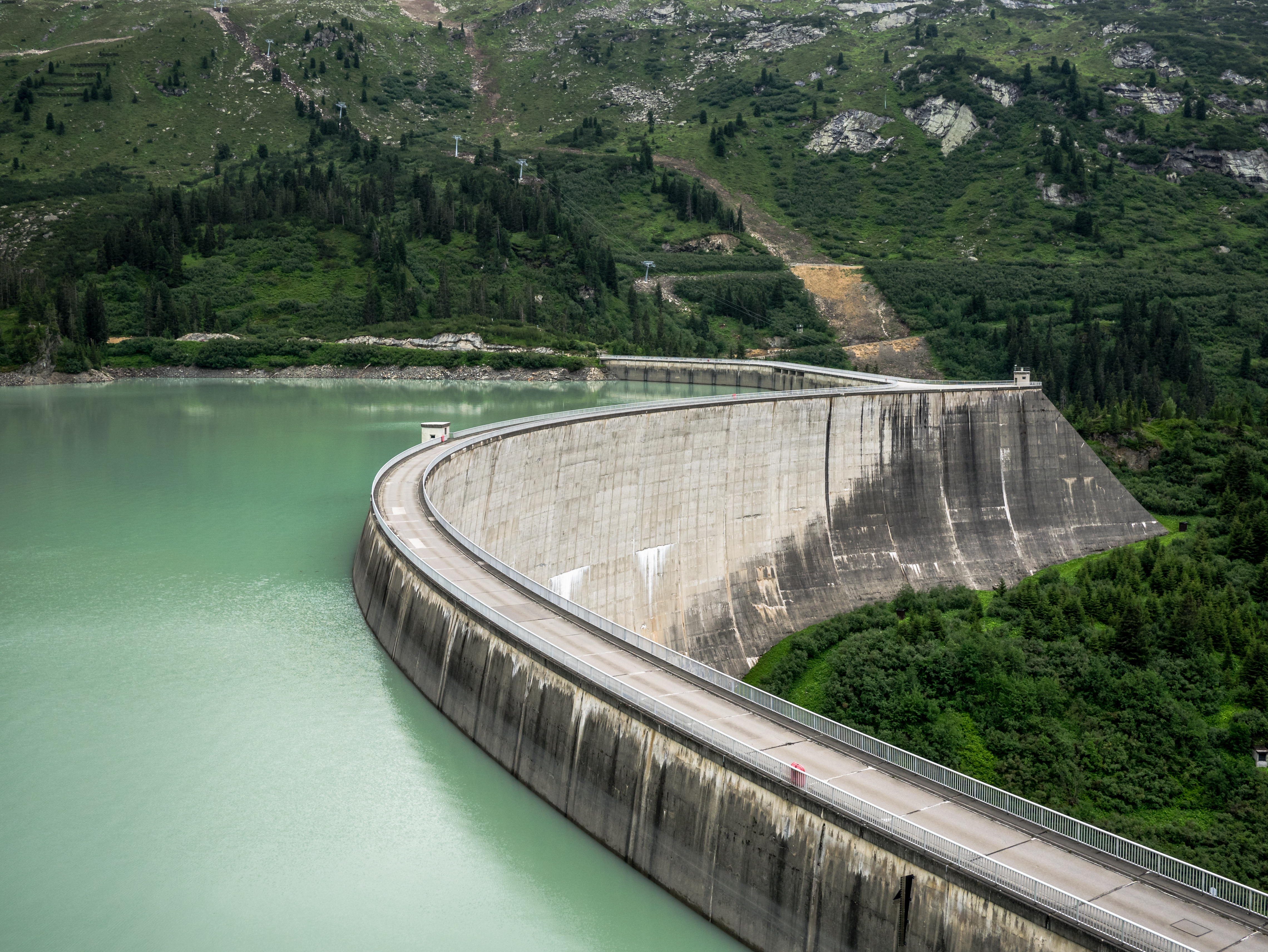 Concrete dam of the Kops Reservoir. Vorarlberg, Austria